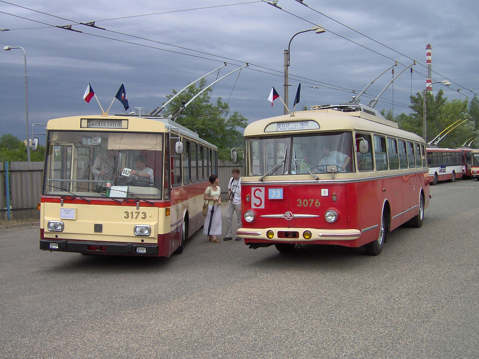 Historical trolleybuses Škoda 14Tr (left) and Škoda 9Tr (right) in Brno, Czech Republic